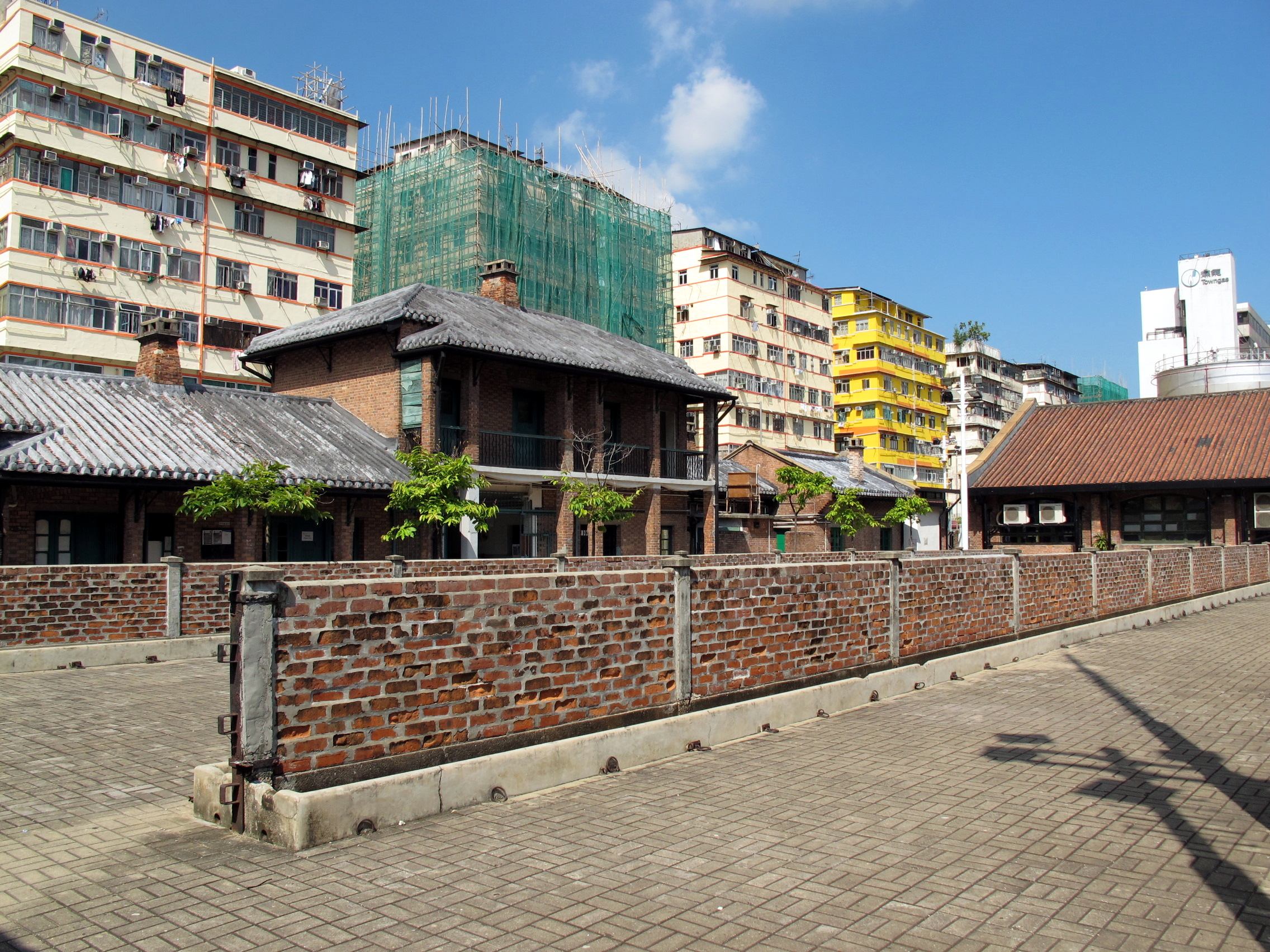 Cattle Depot Artist Village 牛棚藝術村